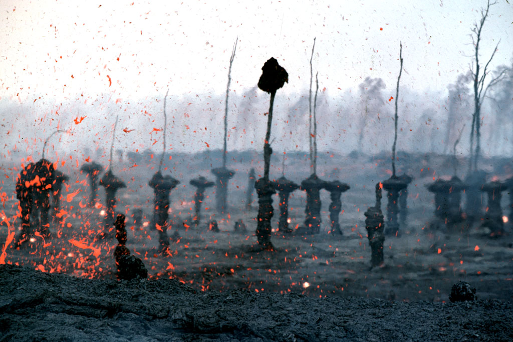 Forest of lava trees resulting from eruption of a 1-km-line of vents east of Pu‘u Kahaualea. The bulbous top of each lava tree marks the high stand of the lava flow as it spread through the trees. As the fissure eruption waned, the flow continued to spread laterally; its surface subsided, leaving pillars of lava that had chilled against tree trunks. Spattering is from fissure out of view to the left. Note blob of spatter adhering to the top of the stripped ‘ohi‘a tree.